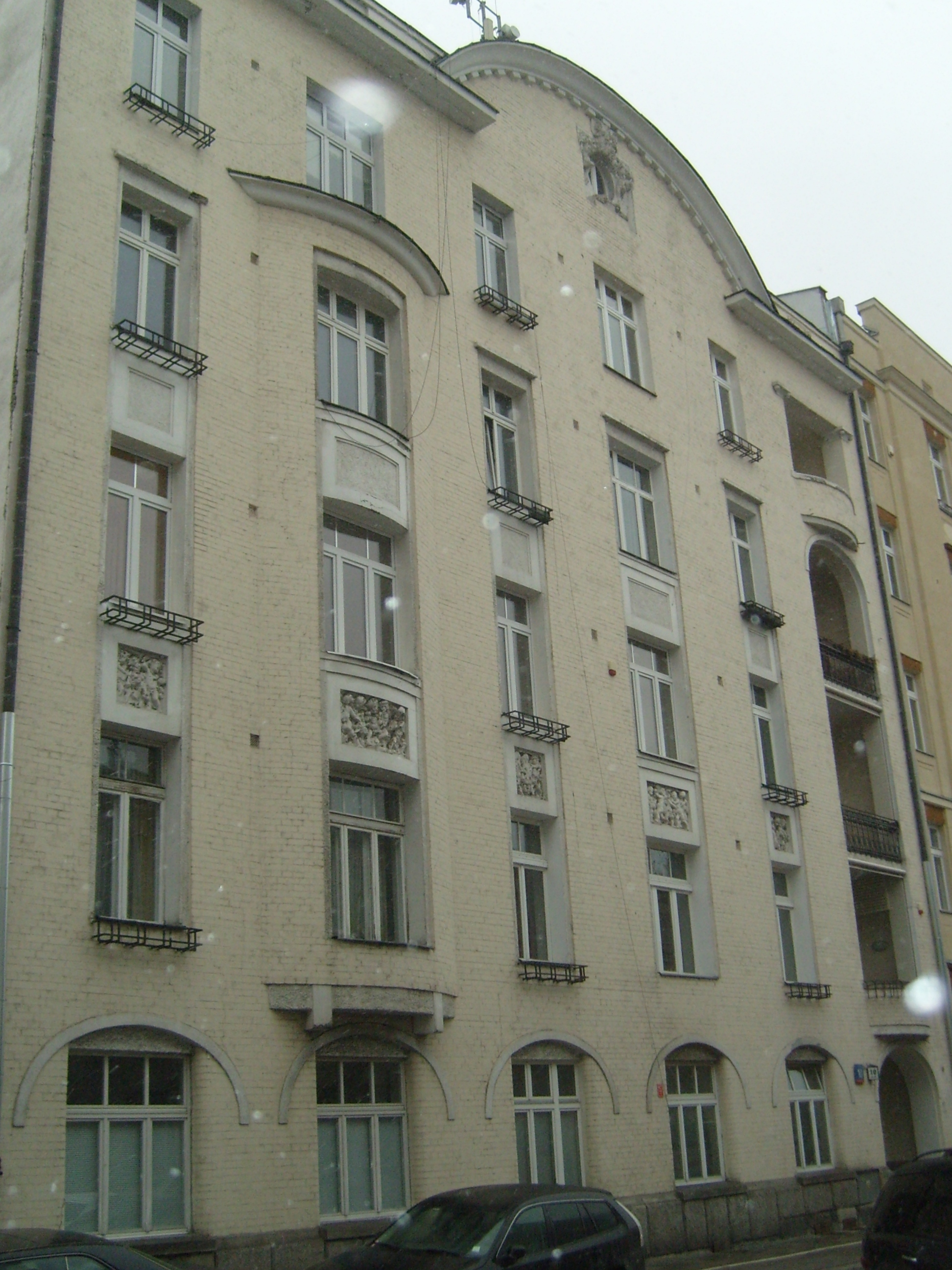 Rose Avenue in Warsaw.